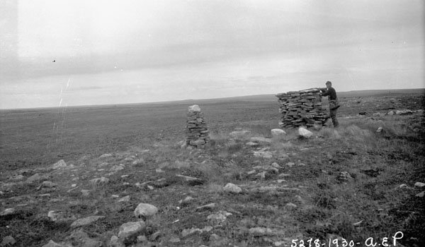 Inuit cairns (inukshuks) on the lower Kazan River (Nunavut, Canada), used during the caribou hunt.